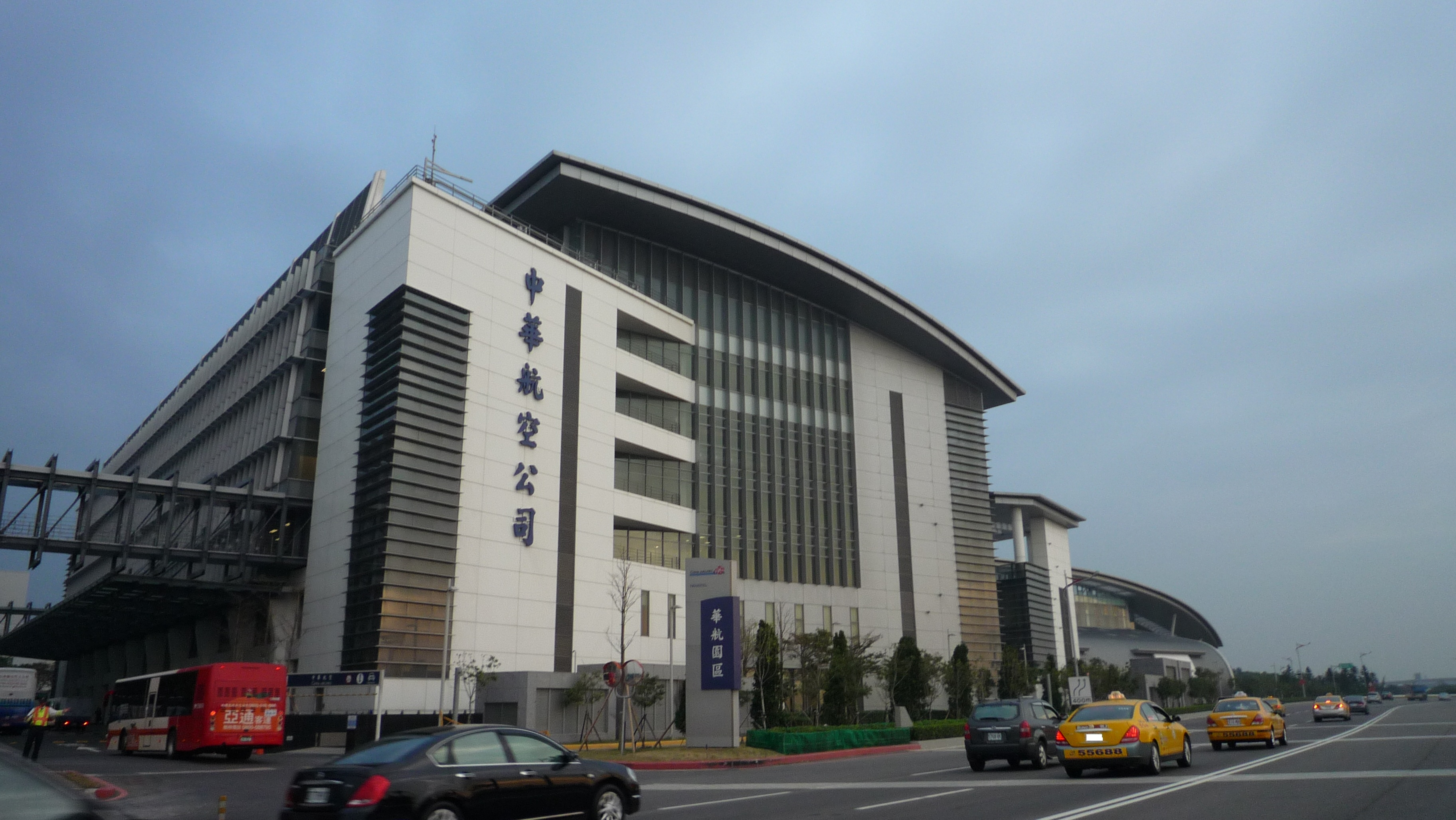 CAL Park, new headquarters of China Airlines at Taiwan Taoyuan International Airport. 中文（台灣）: 華航園區--中華航空公司位於台灣桃園國際機場的新總部大樓。 中文（中国大陆）: 华航园区--中华航空公司位于台湾桃园国际机场的新总部大楼。